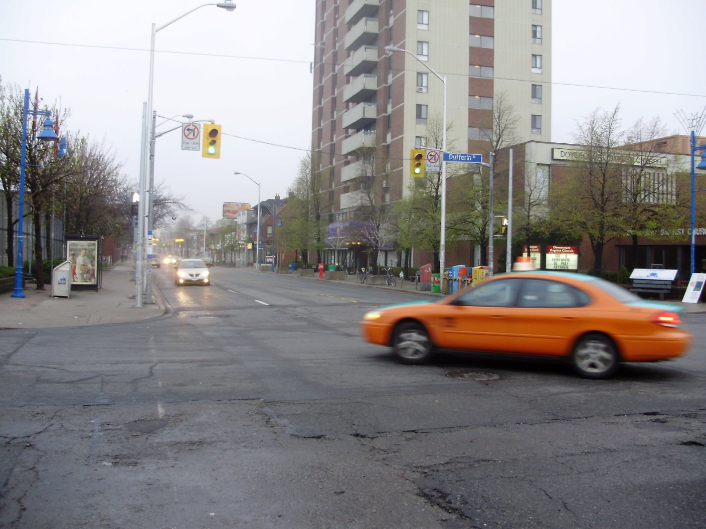 The intersection of Dufferin Street and Bloor Street in Toronto, looking west.